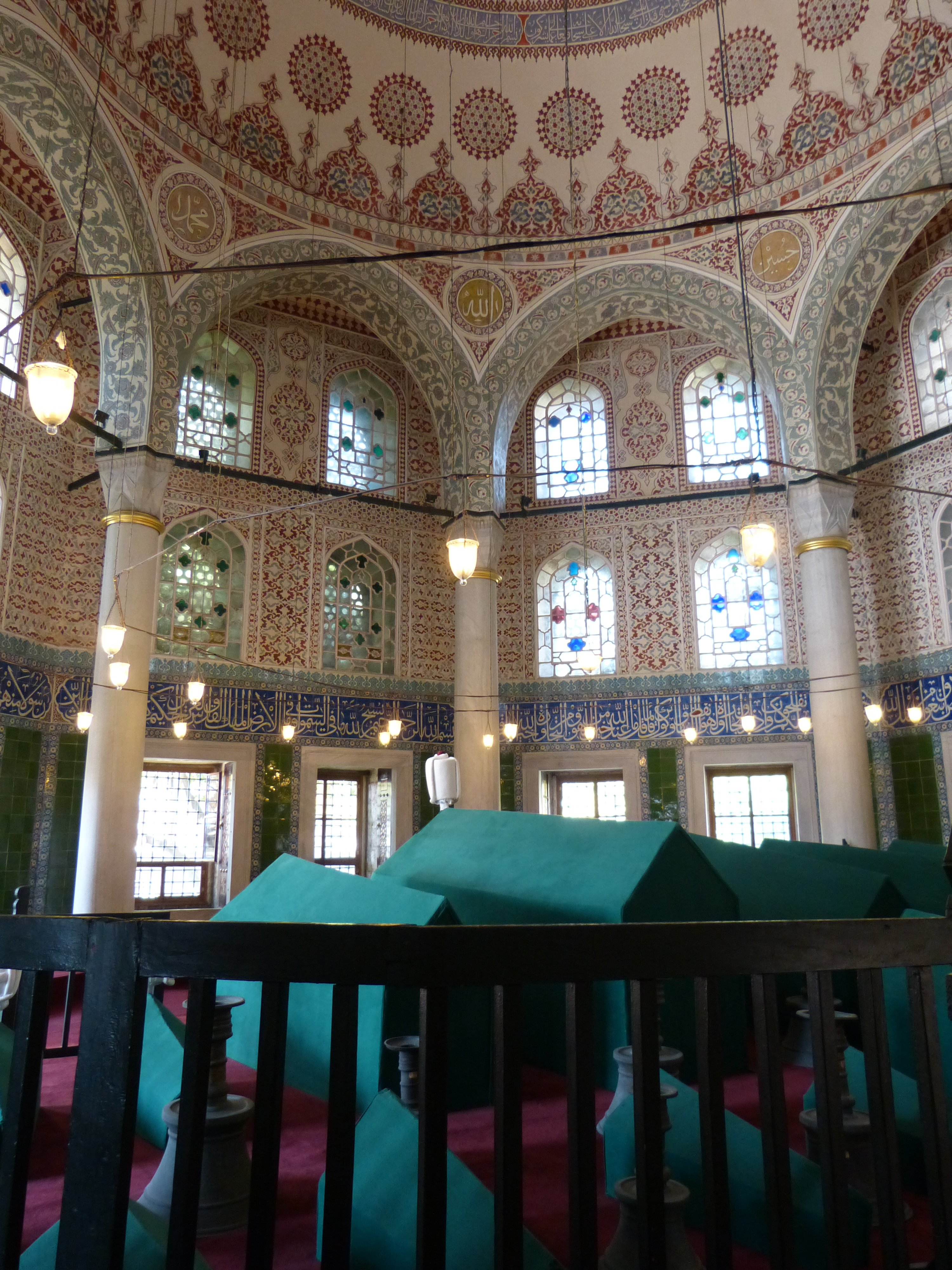 Türbe (Tomb) of Sultan Mehmed III. (1566–1603)